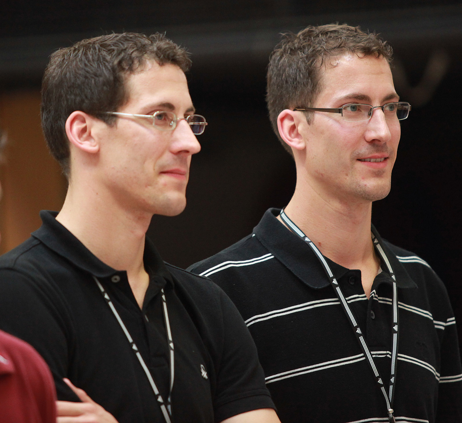 Andreas und Marcus Pritschow, two famous German handball referees (twins), during the Schlecker Cup 2009.